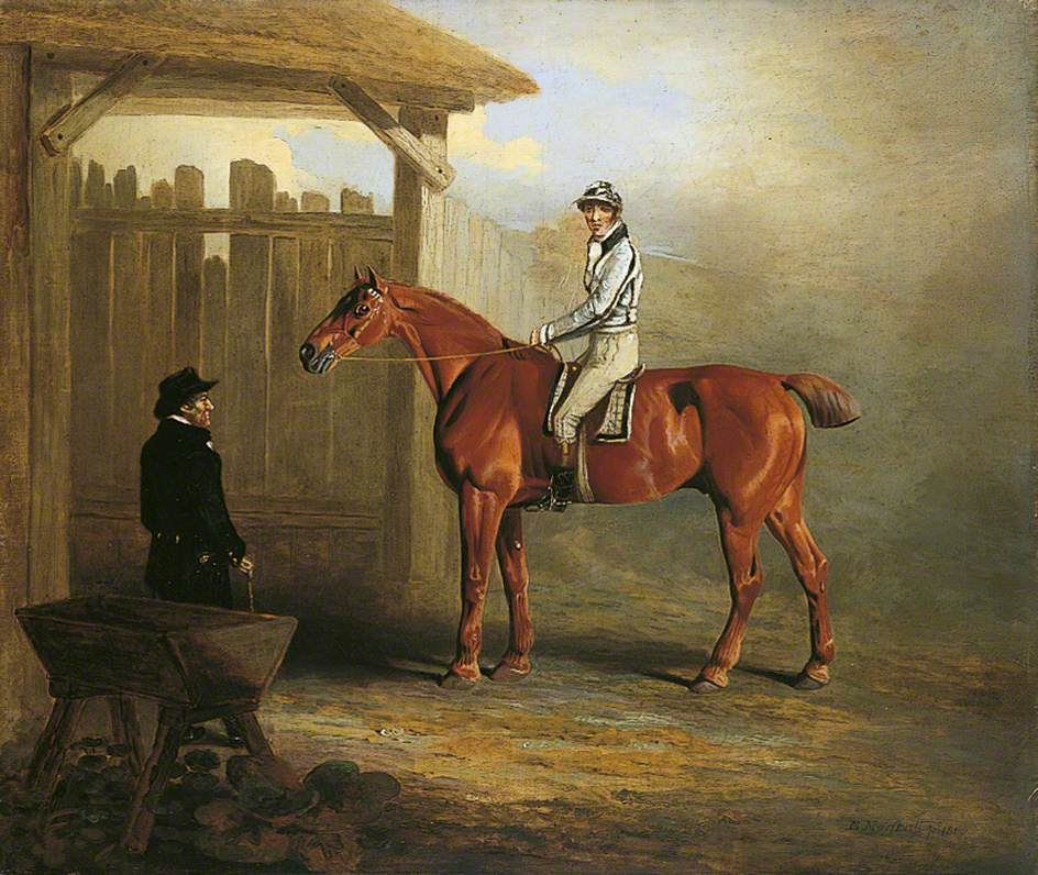 Painting of the racehorse Soothsayer. Unknown artist of the British School, circa 1811. Artist dead for over 100 years.